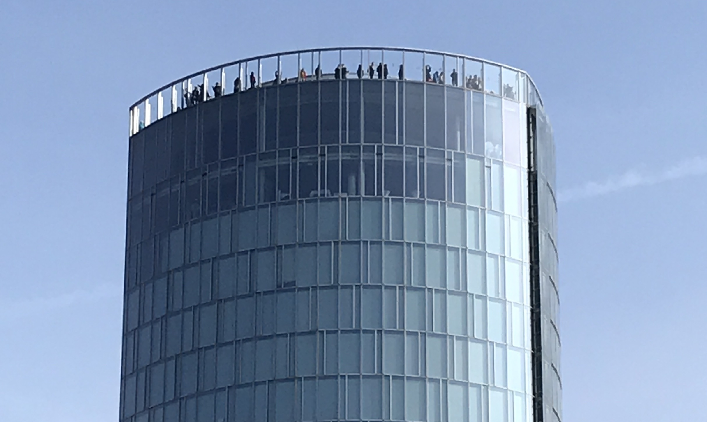 Viewpoint with people